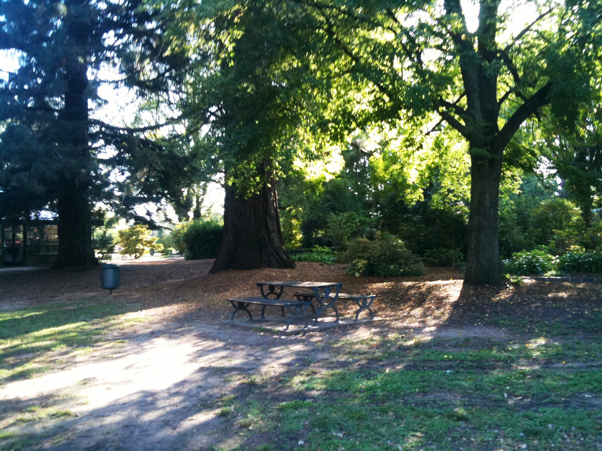 Cook Park in Orange, New South Wales, Australia.